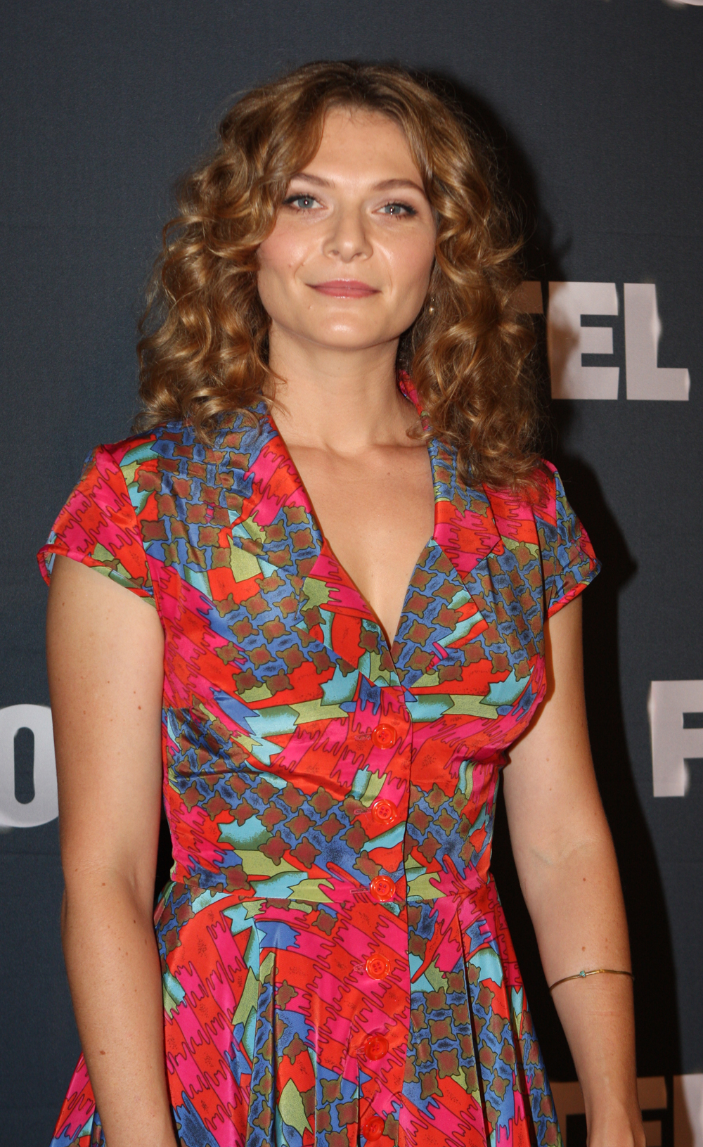 Leeanna Walsman, 2013